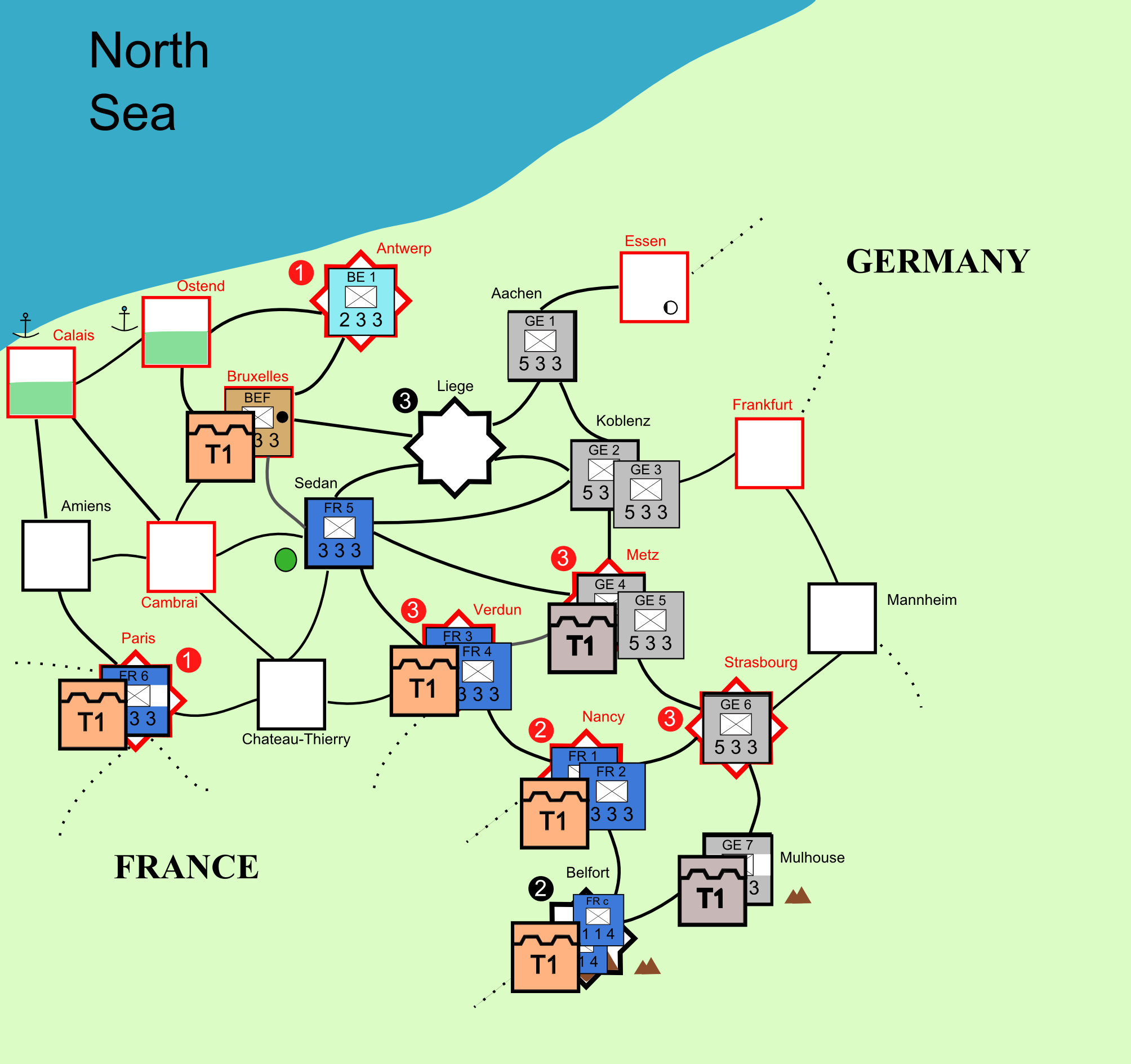 Paths of Glory: western front at the start of campaign game, august 1914. This is a personal work, only for example purposes and without use of original game art. Paths of Glory (Copyright 1999 & 2004) is a game by GMT Games LLC, game design by Ted Raicer, map and counter original art by Mark Simonitch.